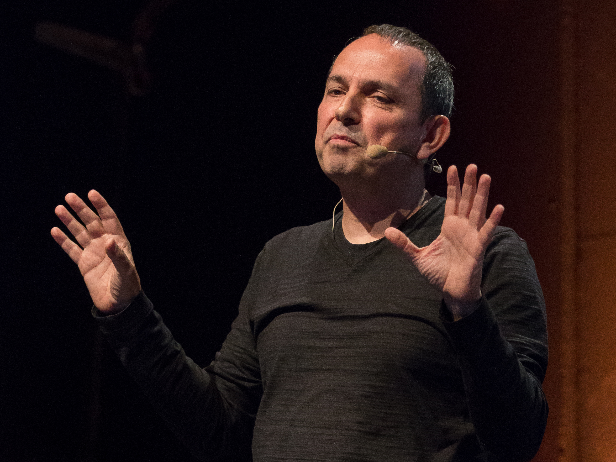 Teddy Cruz at the See-Conference 2015 in the Schlachthof Wiesbaden